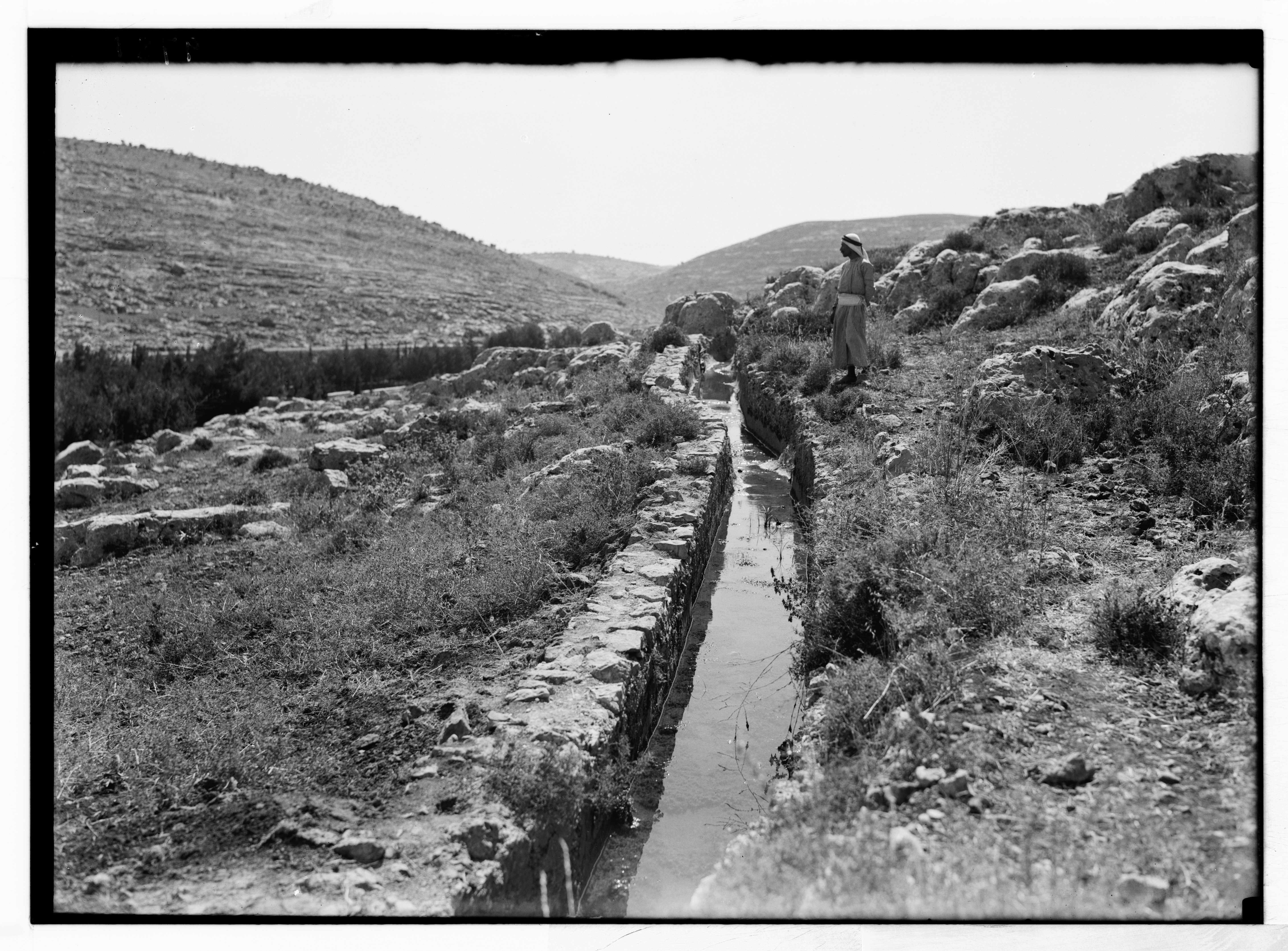 Title: Solomon's Pools & ancient aqueducts. Open section of Wadi El-Biyar aqueduct leading to upper pool. Note lower pool in distance & to the left. Abstract/medium: G. Eric and Edith Matson Photograph Collection Physical description: 1 negative